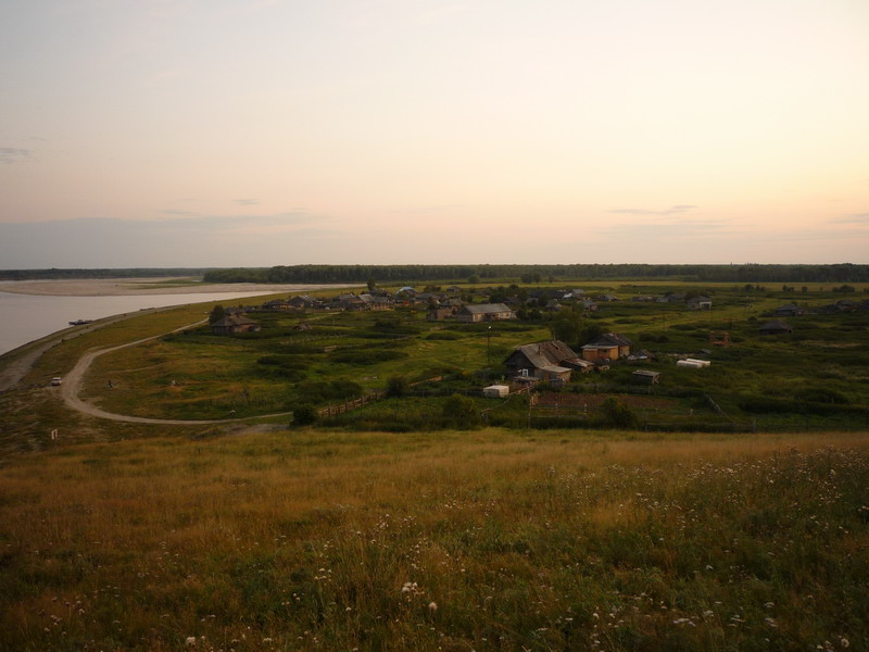 Chembakchina village